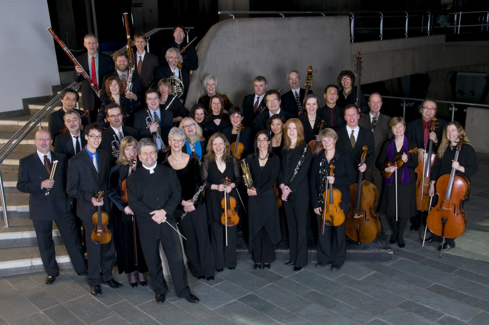 Symphony Nova Scotia's musicians and music director, Bernhard Gueller, at the Dalhousie Arts Centre in Halifax, Nova Scotia. 2010.